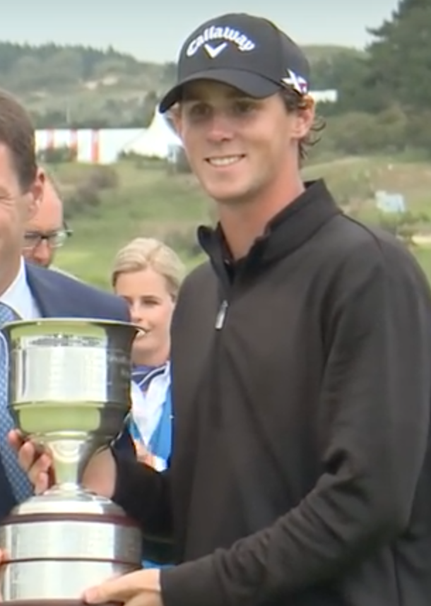 Thomas Pieters KLM Open 2015 Winner. European Tour. Belgian Golfer.